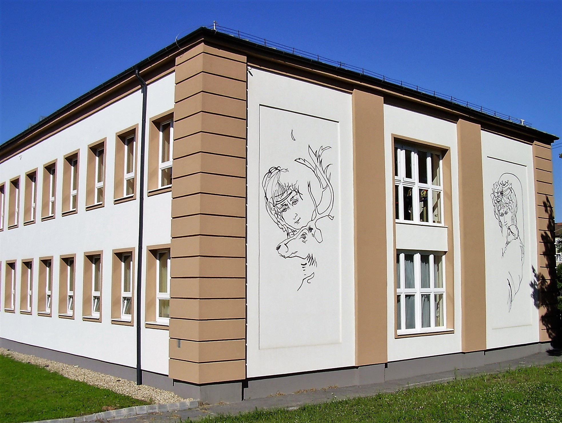 In memory of István Mezey (other name: Mother with child and The legend of the Miraculous Stag) by Attila Grubánovits (designer); contributors: László Christmas and Valter Lengyel. 2014 mural. On the facade of the István Mezey Art Center - #9 Rákóczi Square, Kazincbarcika, Borsod-Abaúj-Zemplén County, Hungary